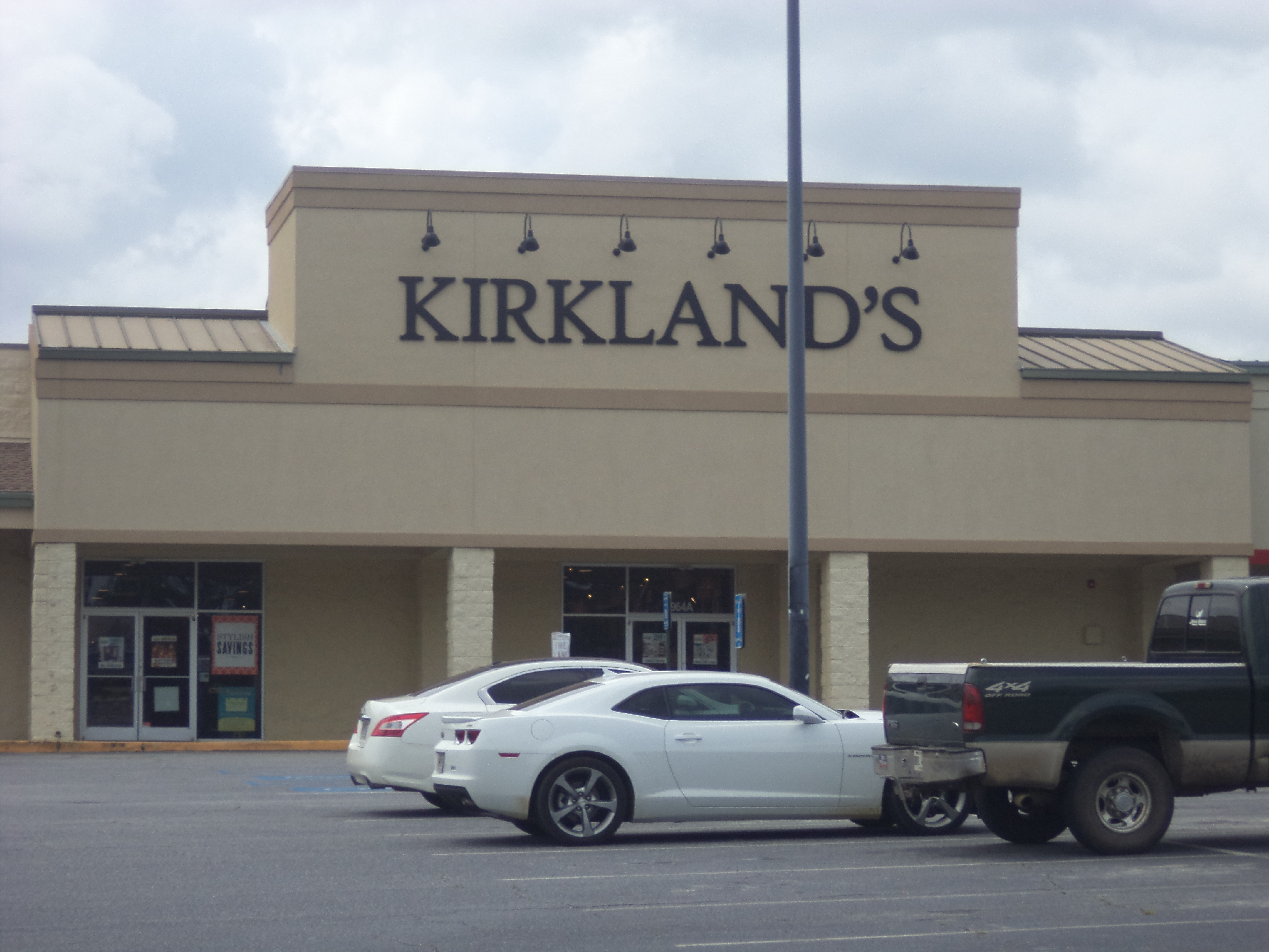 Kirkland's, 964 A North St Augustine Rd, Valdosta, Lowndes County, Georgia